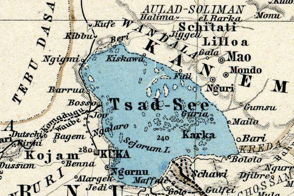 Tsad-See (Lake Chad) in Adolf Stielers Handatlas, 1891.